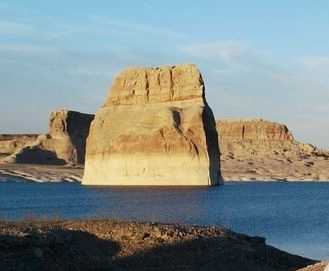 Lone Rock in Lake Powell, Utah, USA 37 deg 01' 51 N 111 deg 32' 19 W